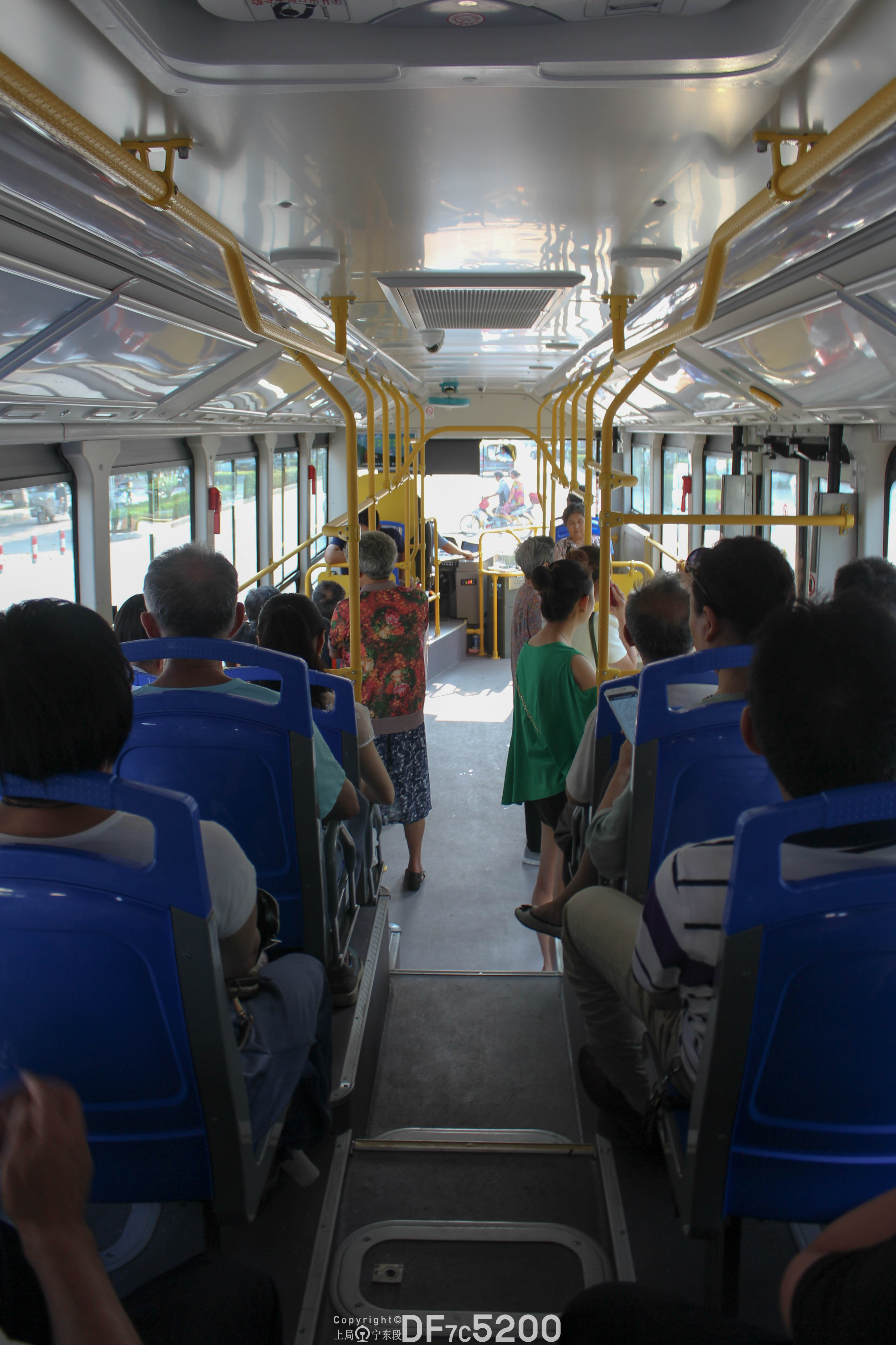 中文（中国大陆）: Bengbu Bus No.120 with BYD K9 Interior